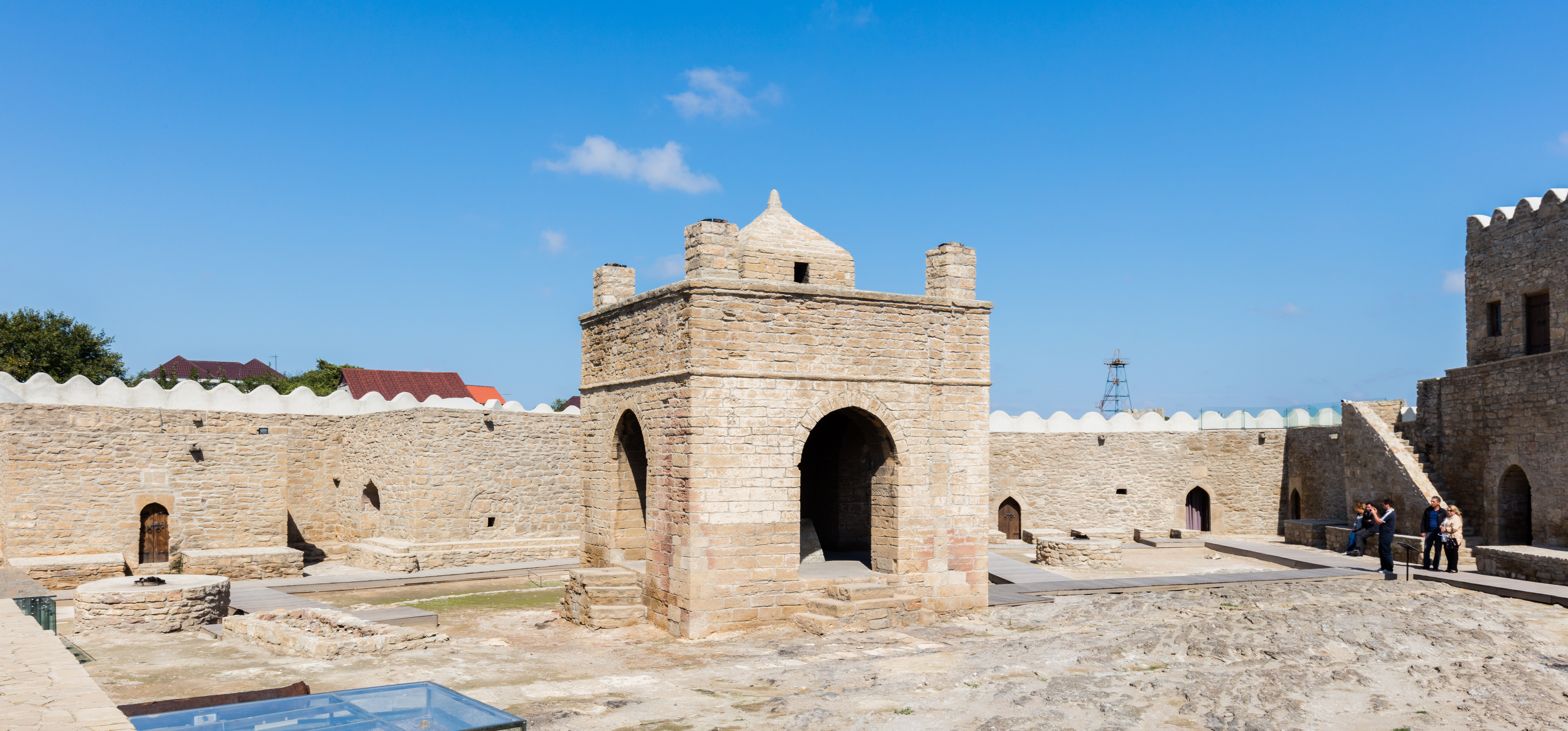 Fire temple, Baku, Azerbaijan